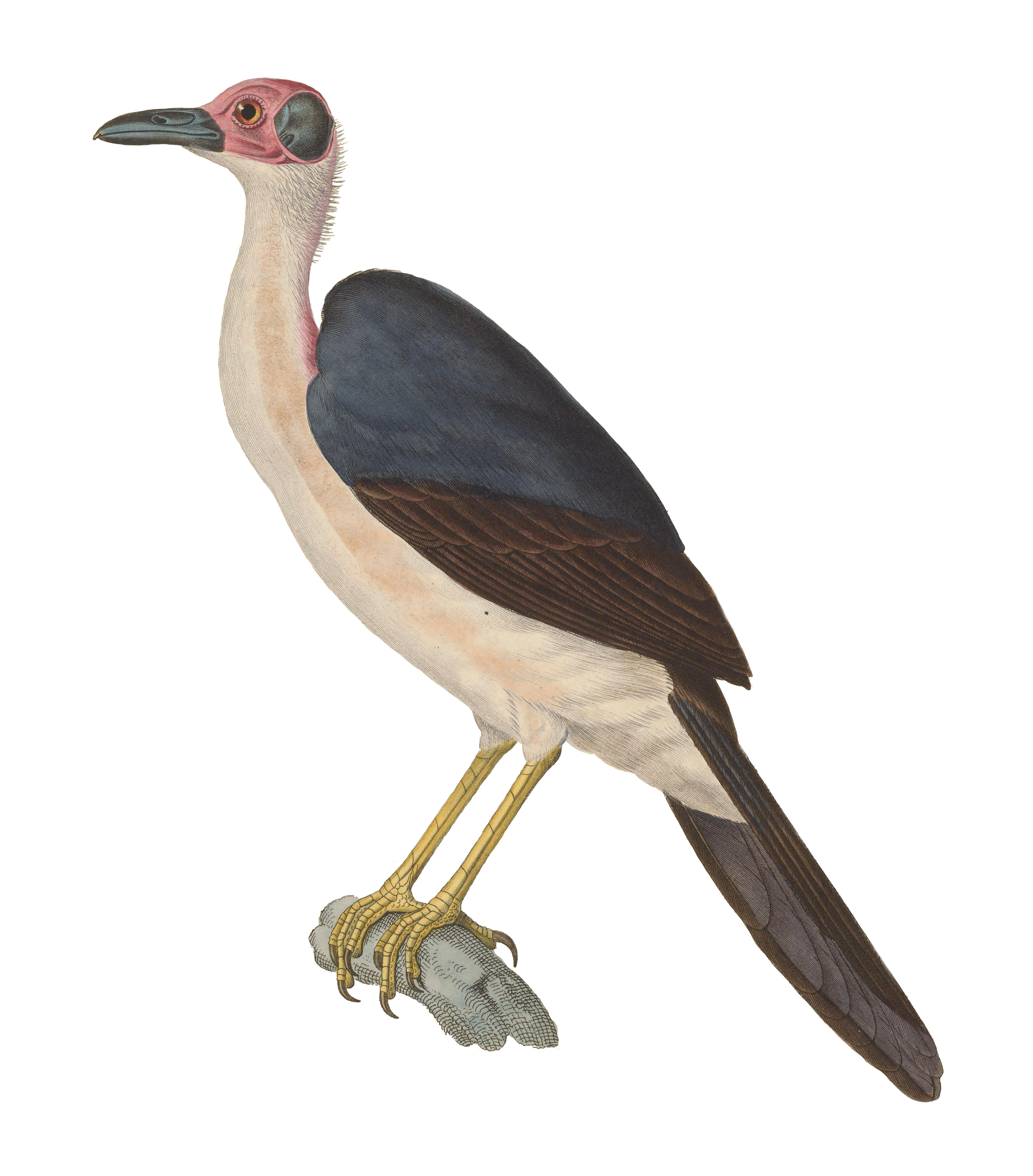 White-necked Rockfowl (Picathartes gymnocephalus)